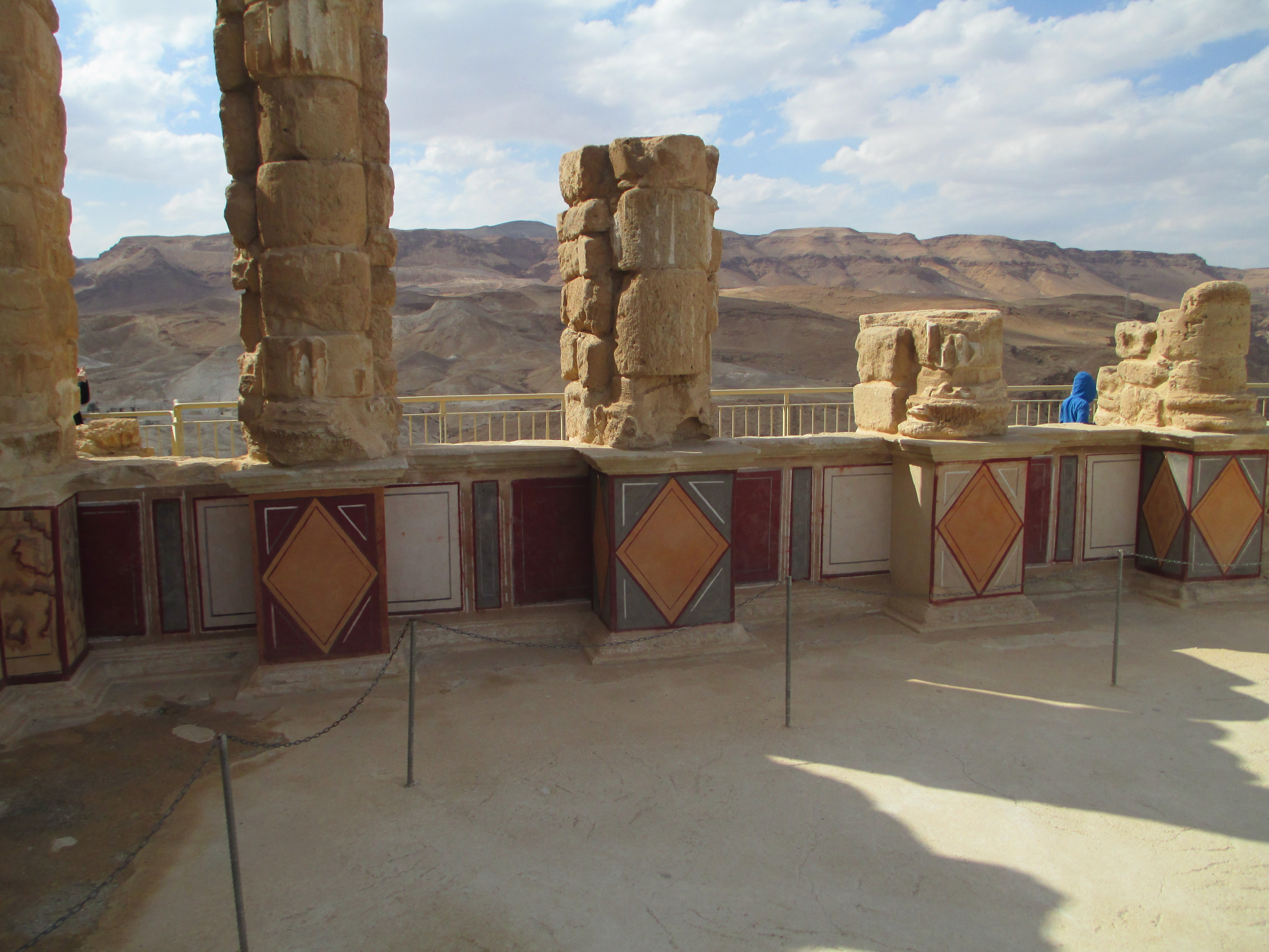 Lower level of the northern palace in Masada